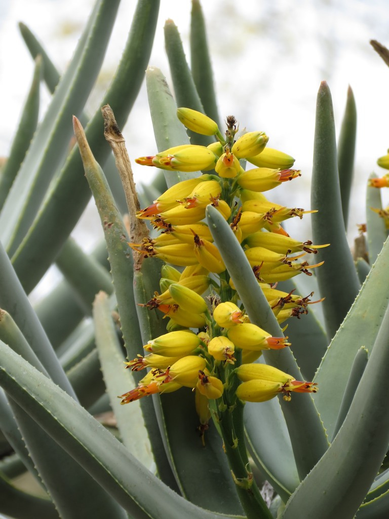 At the Huntington